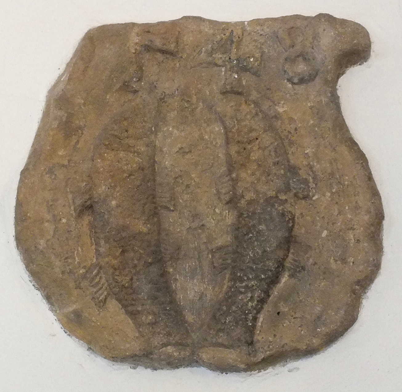 Coat of arms of the town of Litovel, which was found in the stream Nečíz at the Přemysl Otakar Square in 1996 and then placed on the wall of the Litovel Municipal Library. The year at the top is 1548.